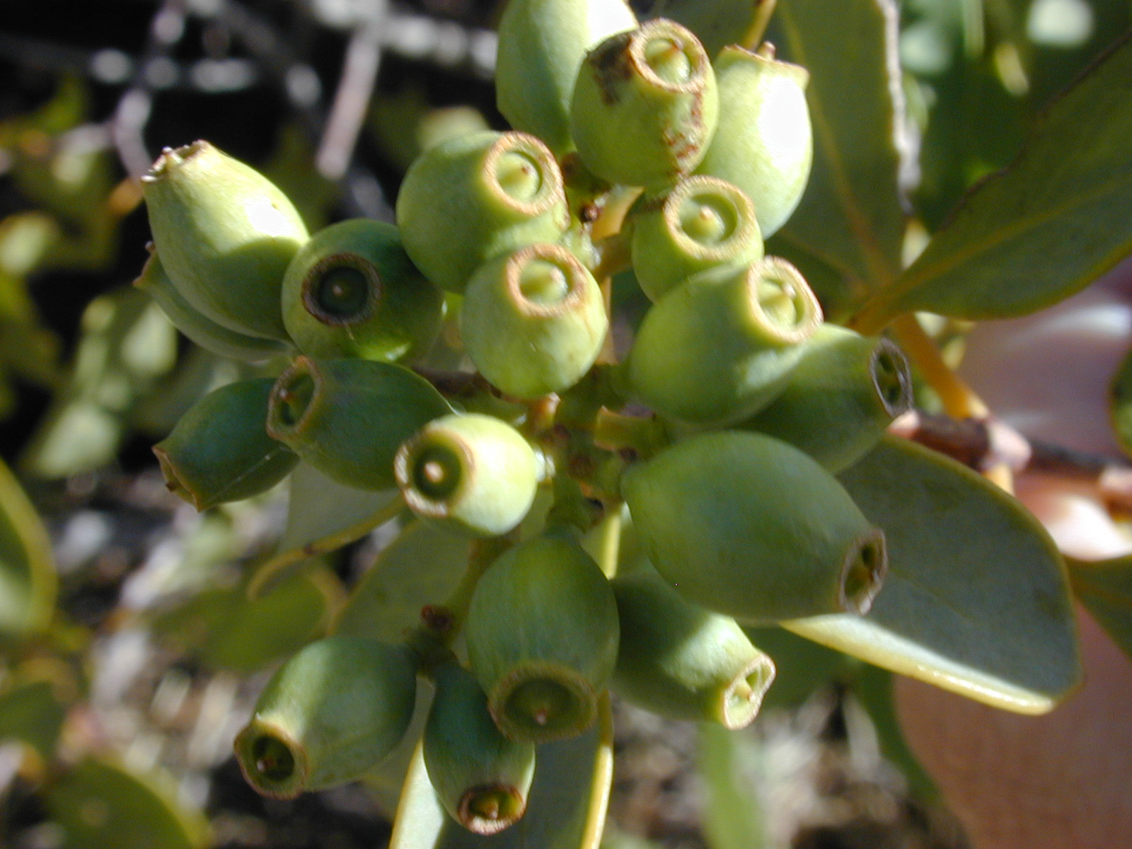 Santalum ellipticum (immature fruits). Location: Maui, Lahaina Pali Trail